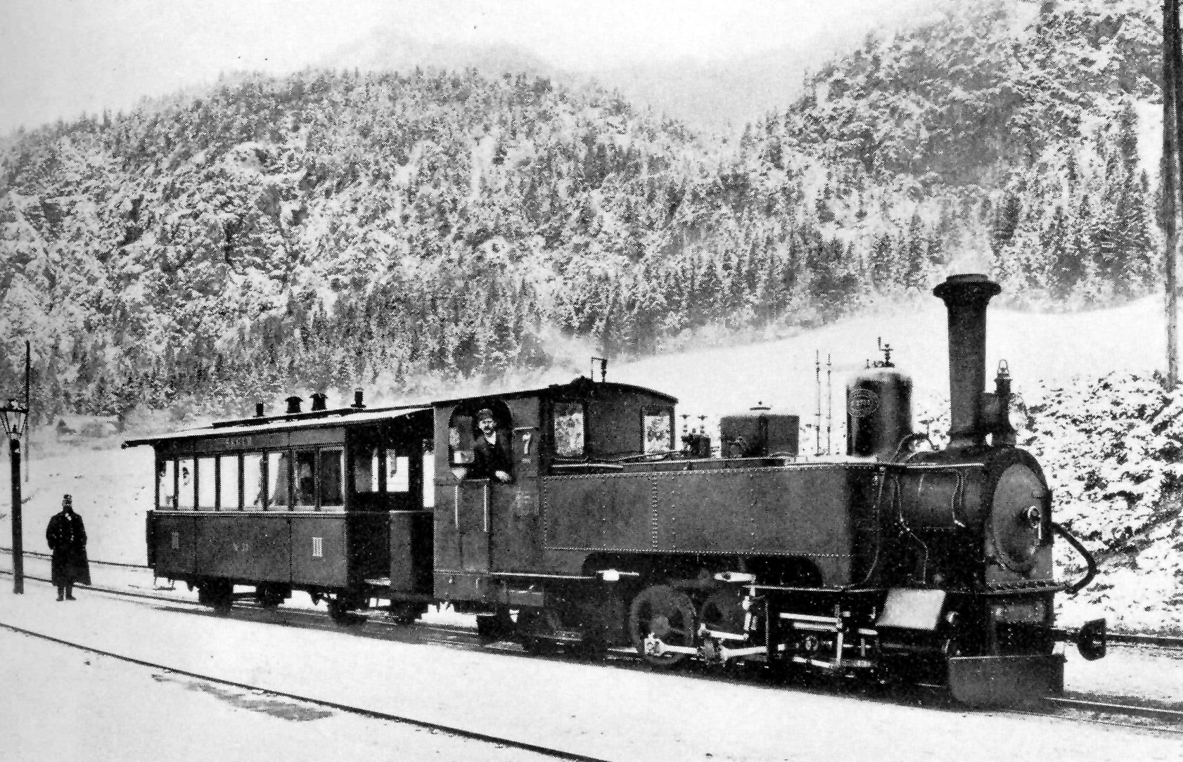 Salzkammergut-Lokalbahn No.7 with single coach in St. Gilgen station. This picture is known as the only official promotion picture of the Salzkammergut-Lokalbahn society.